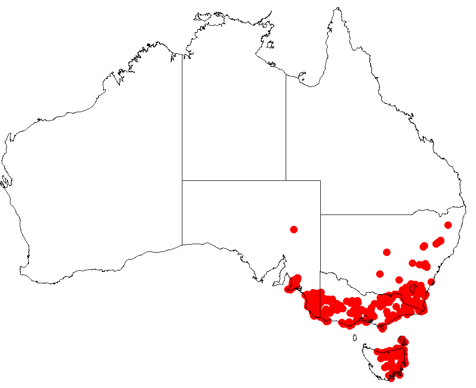 Acrotriche serrulata Occurrence data from Australasian Virtual Herbarium downloaded 23 November 2018 using